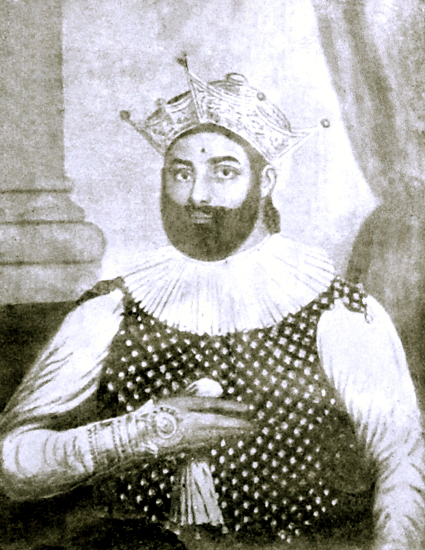 Original Portrait of King Sri Vikrama Rajasinha (1780-1832) (Reign 1798 - 10 February 1815) .